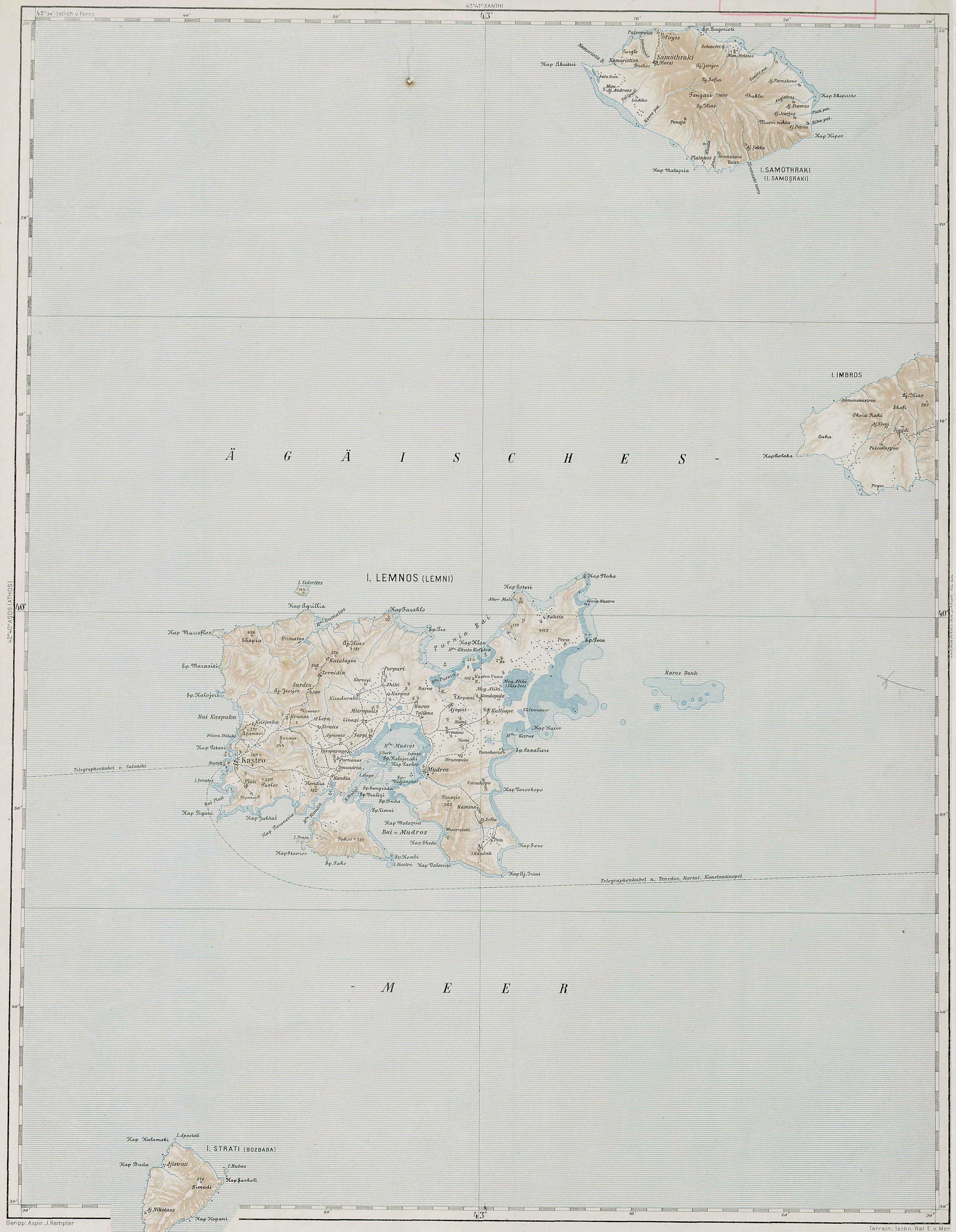 3rd Military Mapping Survey of Austria-Hungary - Lemnos